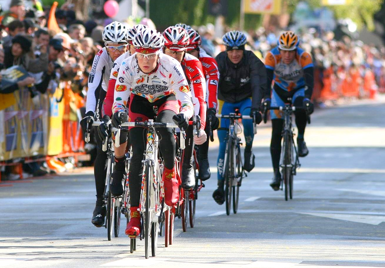 Will Routley and Matthew Crane (Jelly Belly); Jeremy Vennel (Bissell); Scott Nydam (BMC); Frank Pipp (Bissell) in this group at the Stage 2 finish. Tour of California 2009.